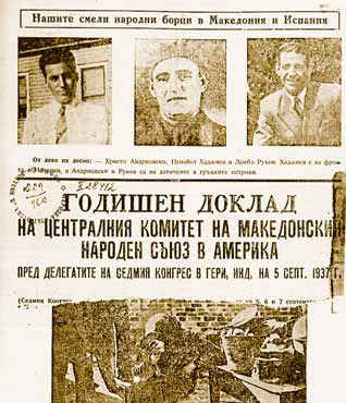 Annual Report of the MPU 1937